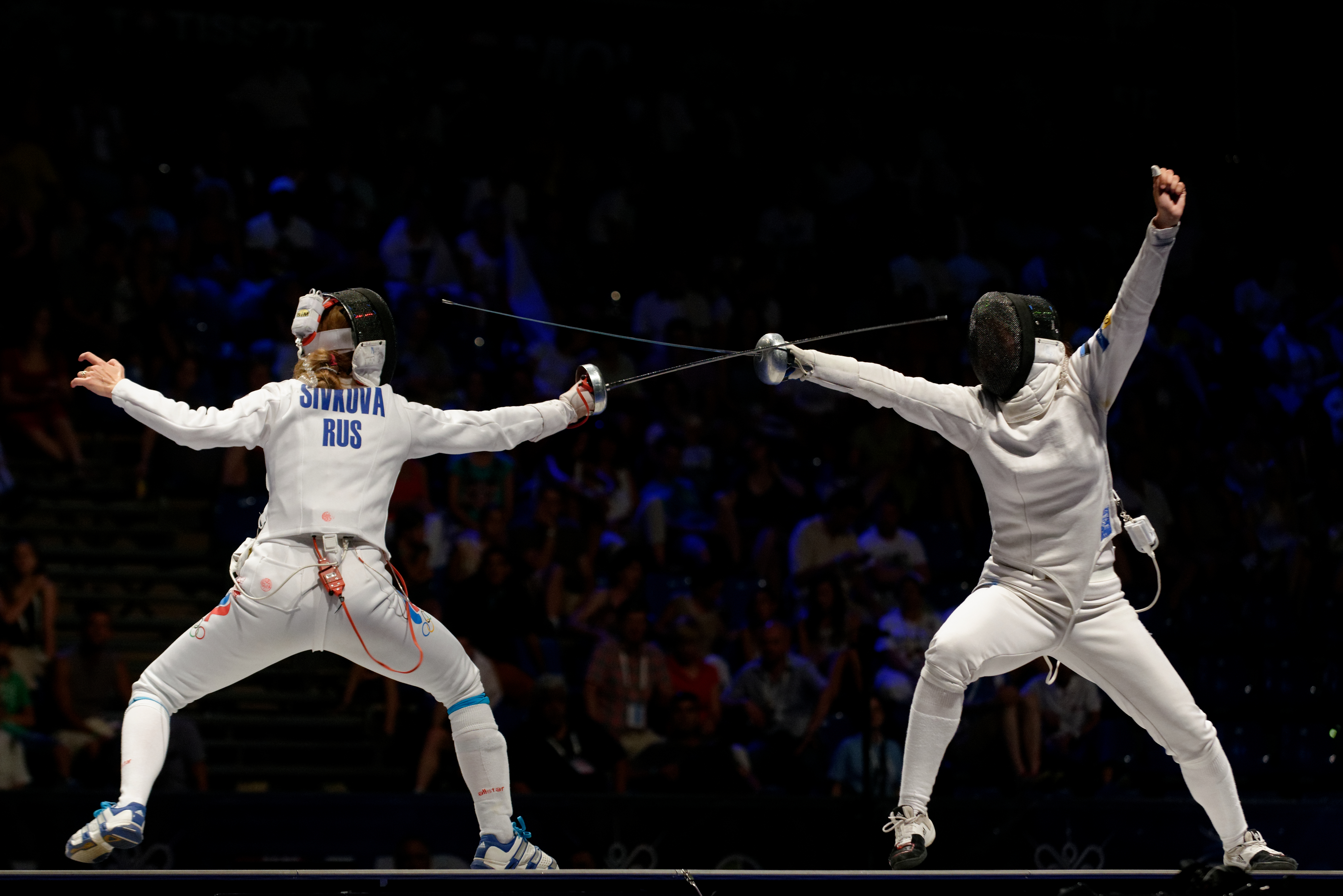 Anna Sivkova of Russia (L) fences against Estonia's Julia Beljajeva (R) in the women's épée final of the 2013 World Fencing Championships at Syma Hall in Budapest, 8 August 2013.